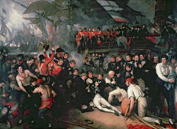 Painting of the death of Lord Nelson on the deck of the Victory during the Battle of Trafalgar.